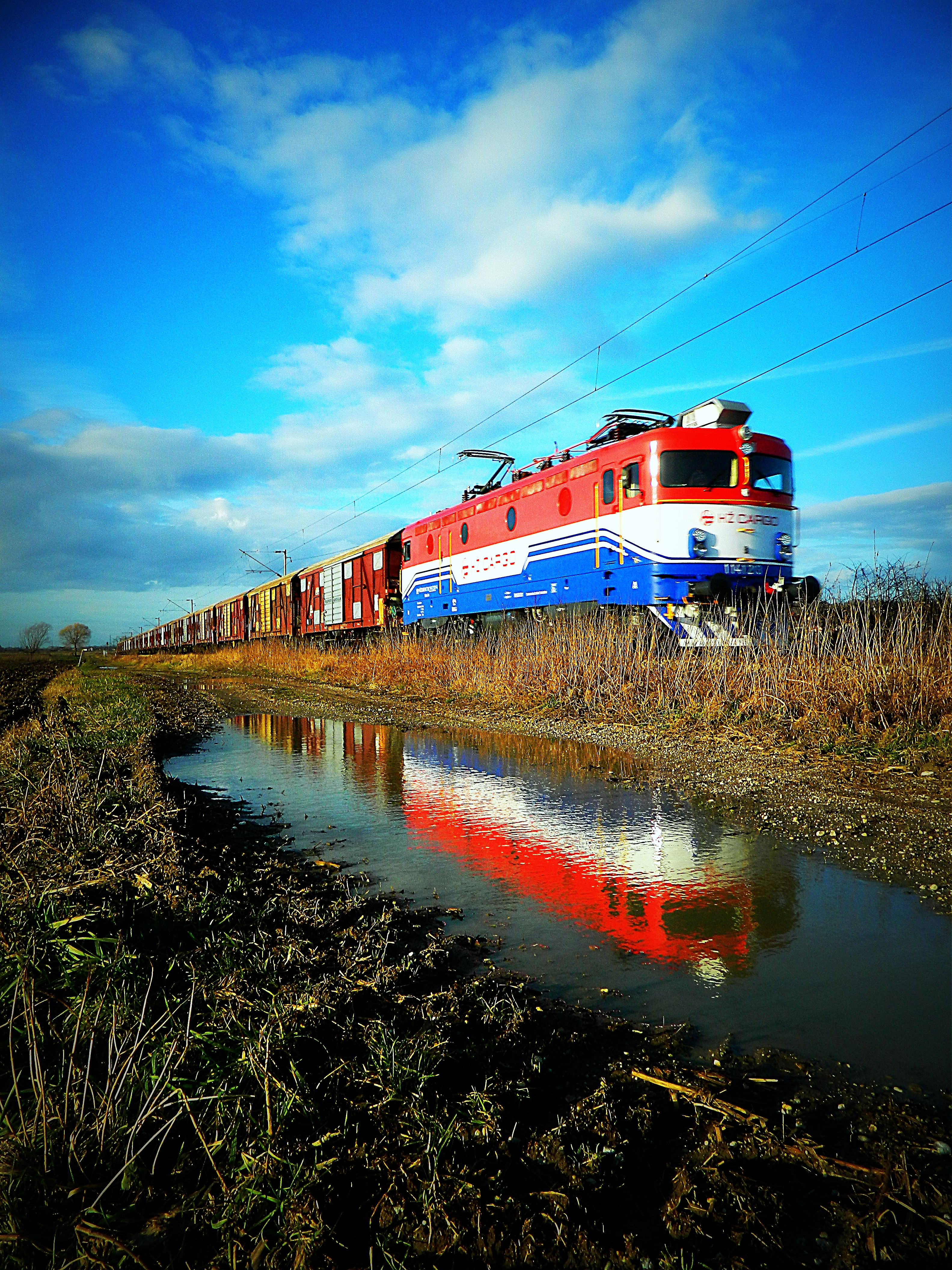 HŽ Class 1141 owned by HŽ Cargo